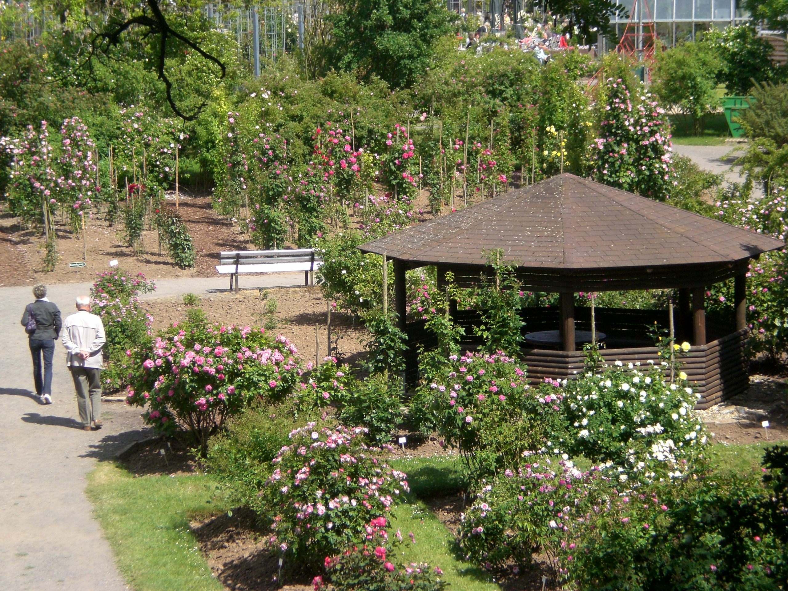 View of the "Zwischenpflanzung" in Europa-Rosarium.